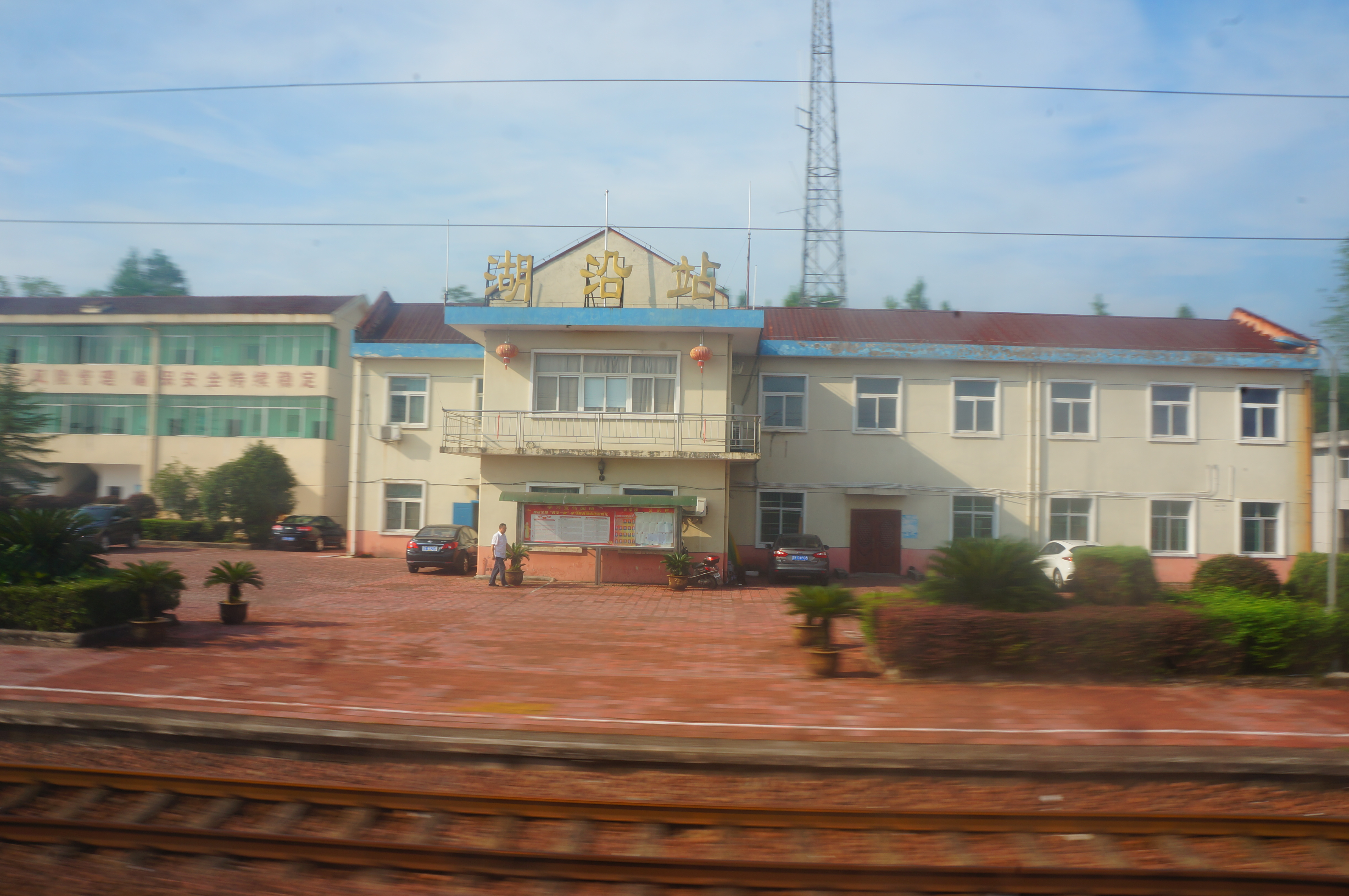 201708 Huyan Railway Station